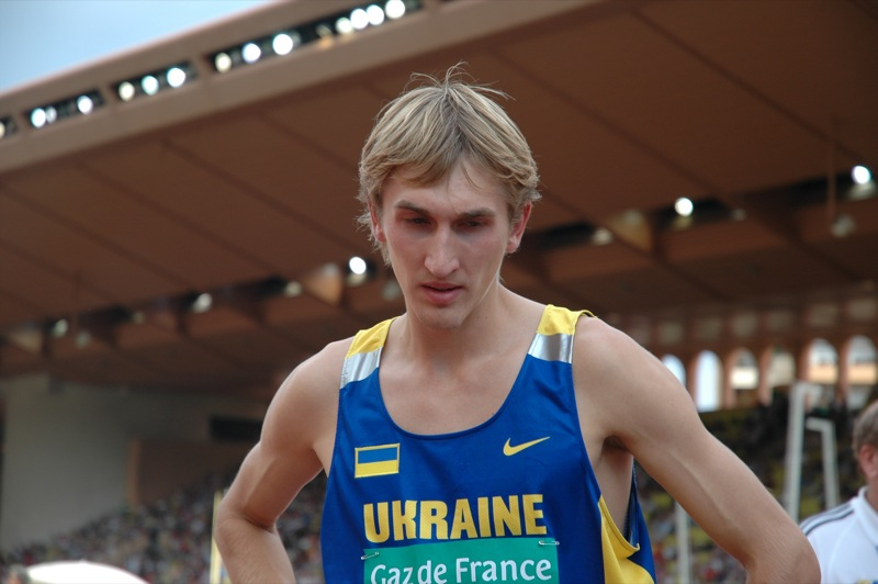 2005 Meeting Herculis at Stade Louis II in Fontvieille, Monaco